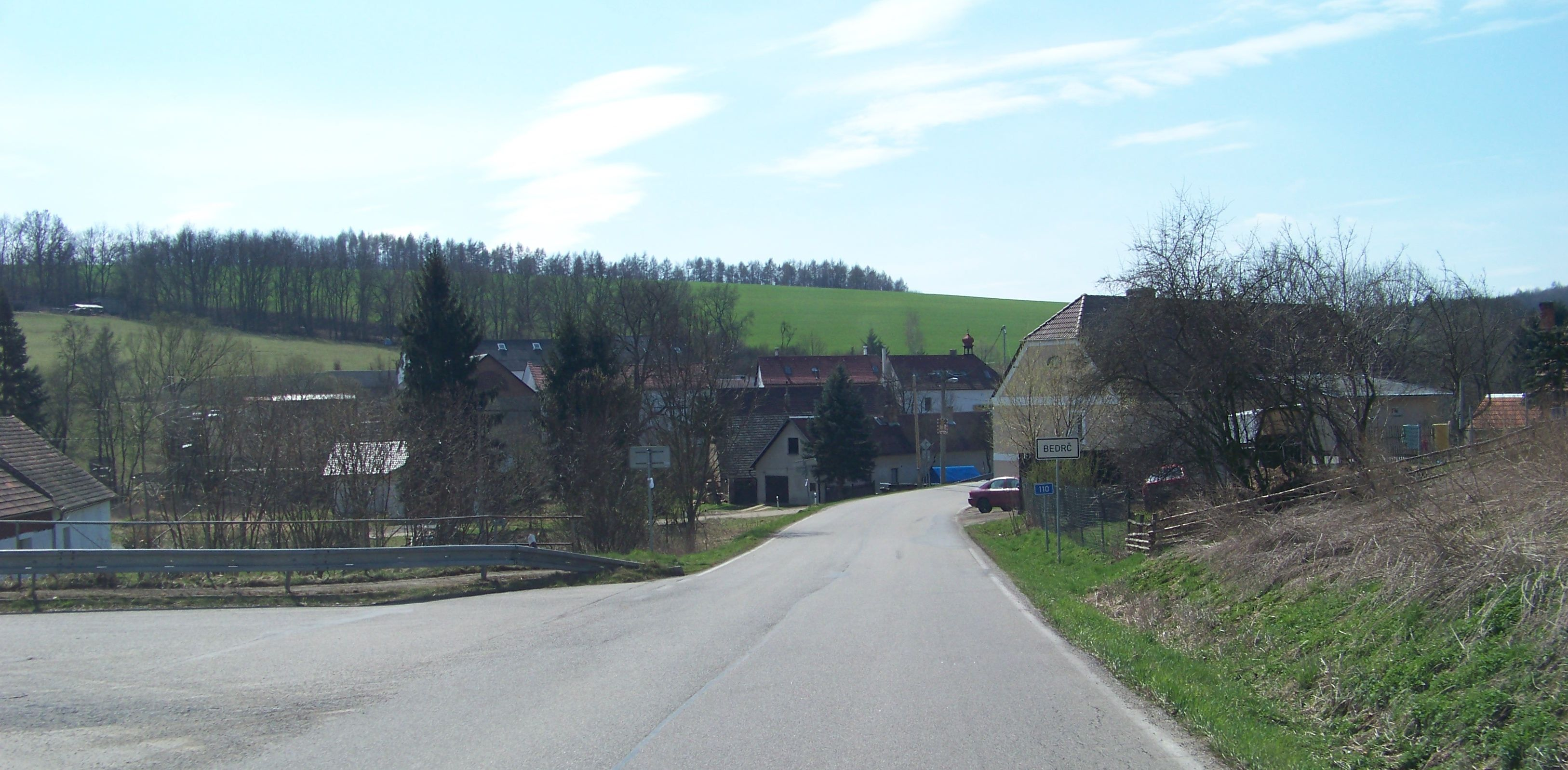 Benešov-Bedrč, Benešov District, Central Bohemian Region, the Czech Republic. Road II/110. - OpenStreetMap(Info)